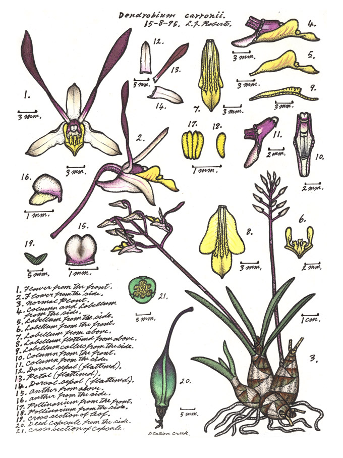 This image is one of a series by Lewis Roberts